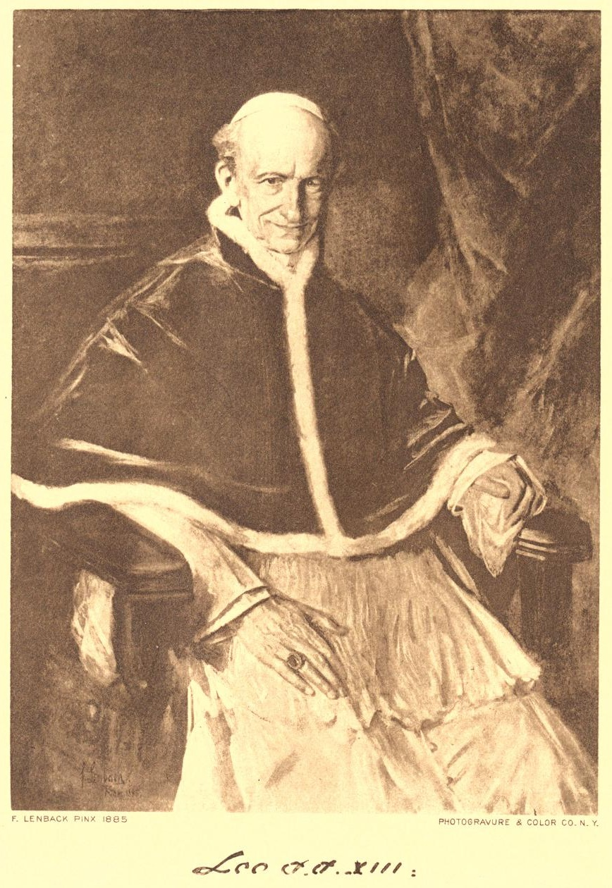 This illustration is from The Lives and Times of the Popes by Chevalier Artaud de Montor, New York: The Catholic Publication Society of America, 1911. It was originally published in 1842.